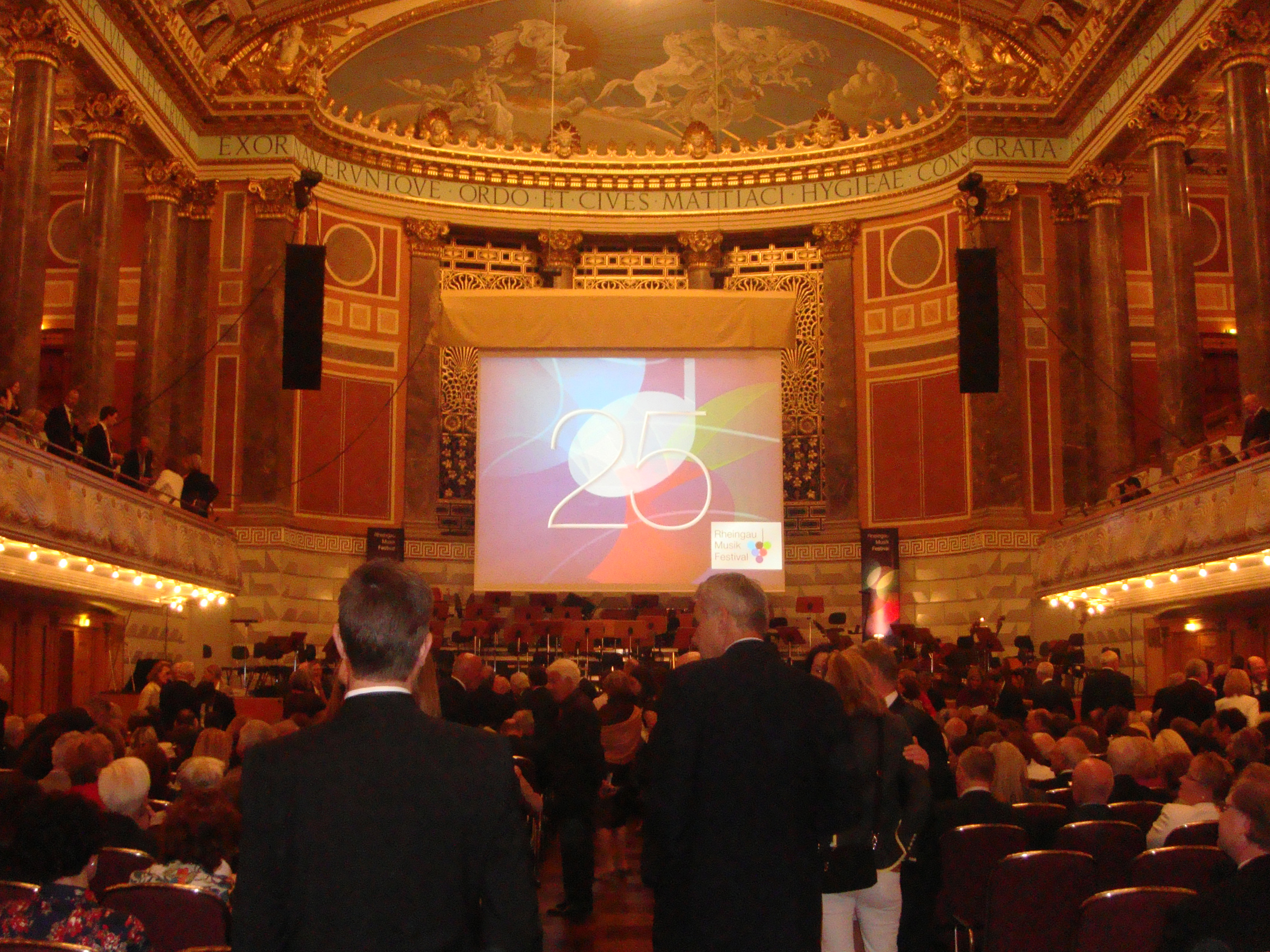 Rheingau Musik Festival celebrating 25th anniversary, Friedrich-von-Thiersch-Saal, Kurhaus Wiesbaden, before the ceremony